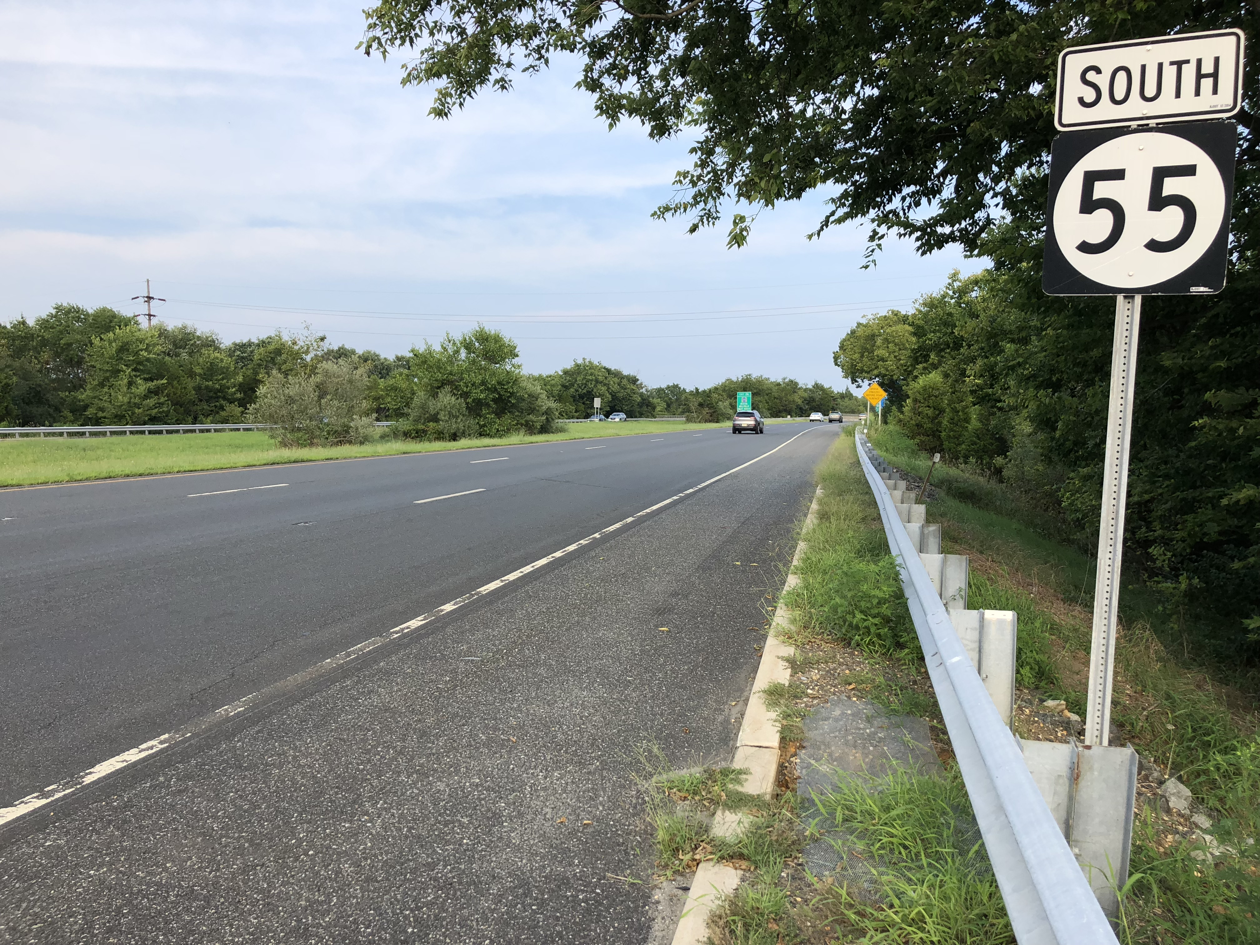 View south along New Jersey State Route 55 (Cape May Expressway) between Exit 27 and Exit 26 in Vineland, Cumberland County, New Jersey